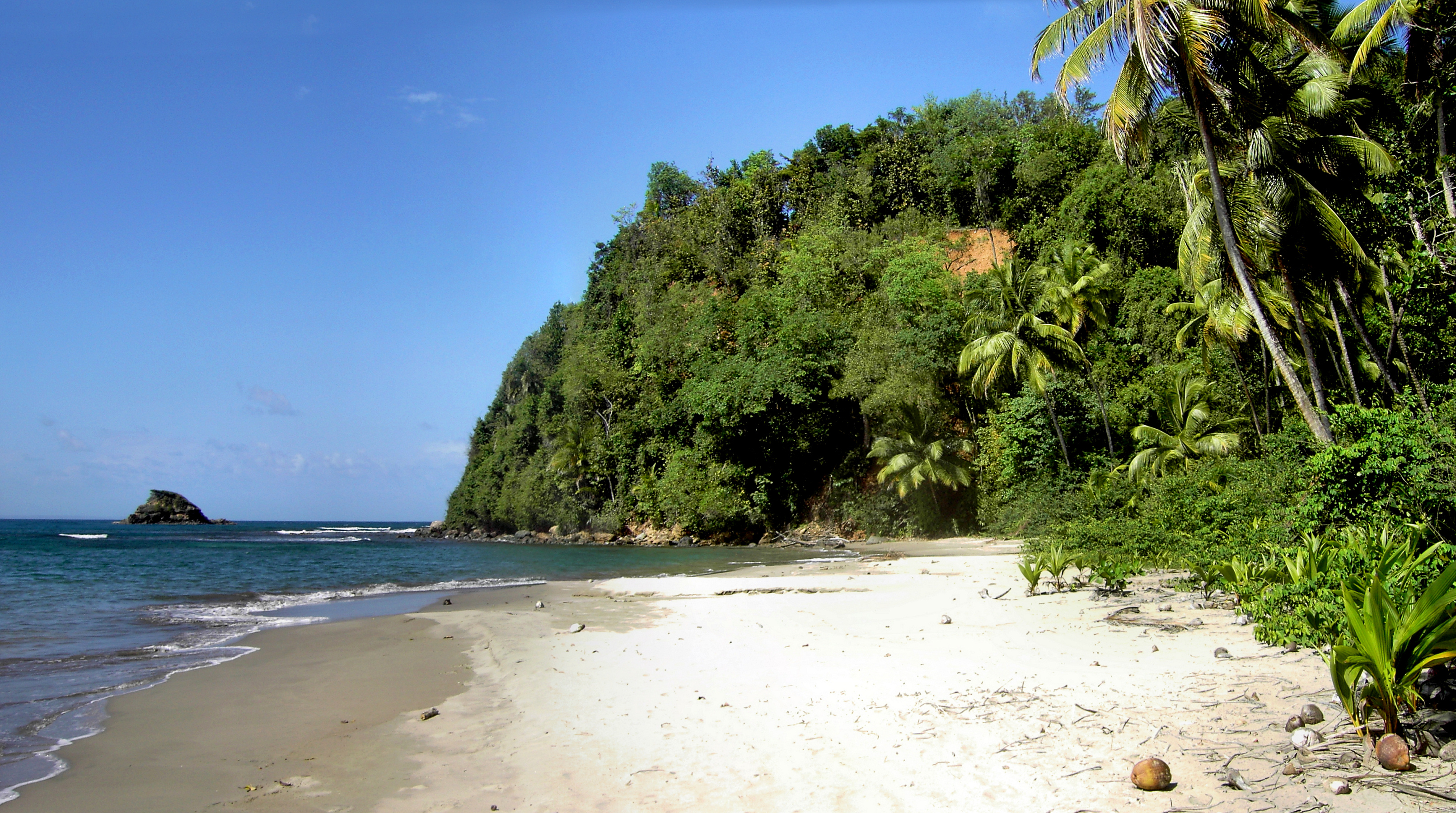 Hampstead Beach, one of the beaches where Pirates of the Caribbean II & III were filmed, Dominica, W.I. View in interactive viewer